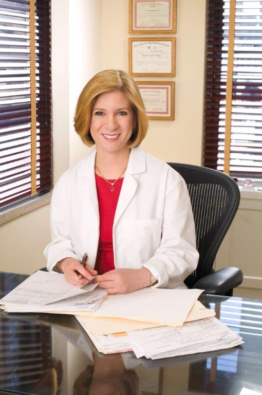 Photo of Dr. Nieca Goldberg at a desk in her office.